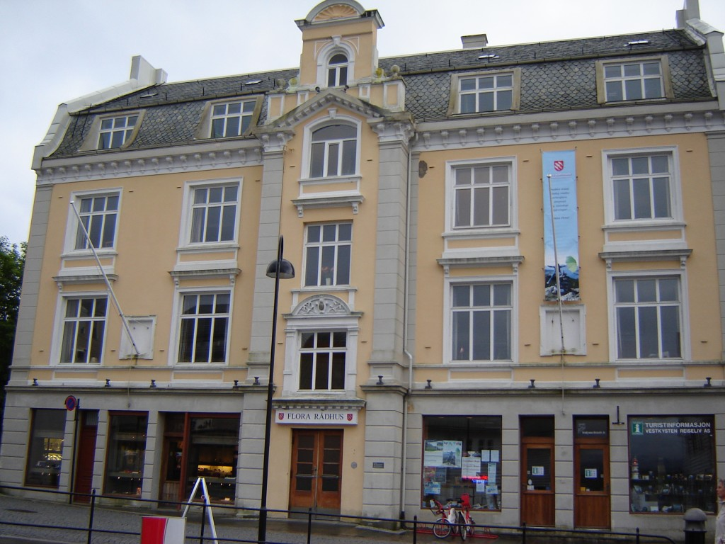 Townhall Florø